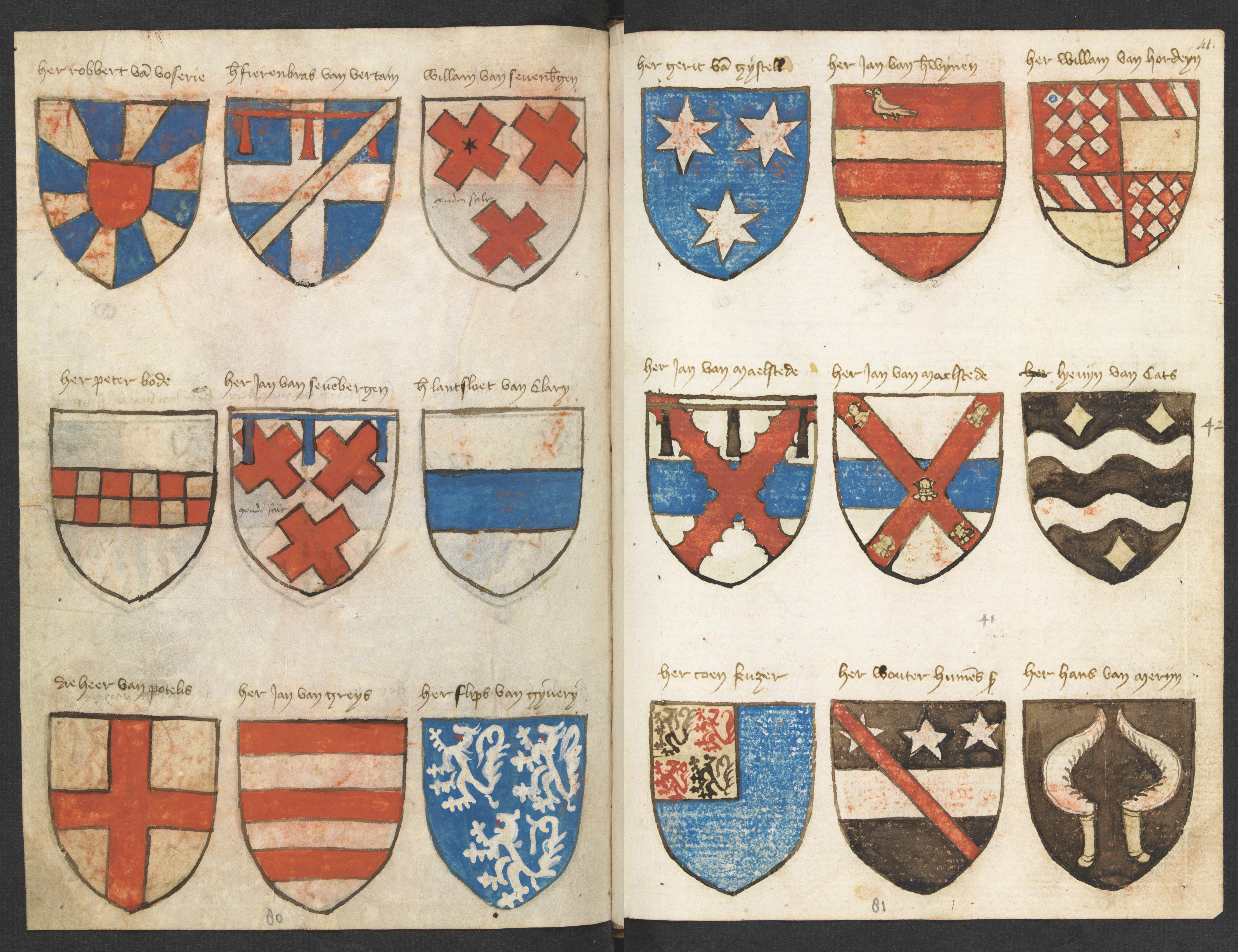 Lefthand side folio 040v; righthand side folio 041r from the Beyeren armorial / Wapenboek Beyeren